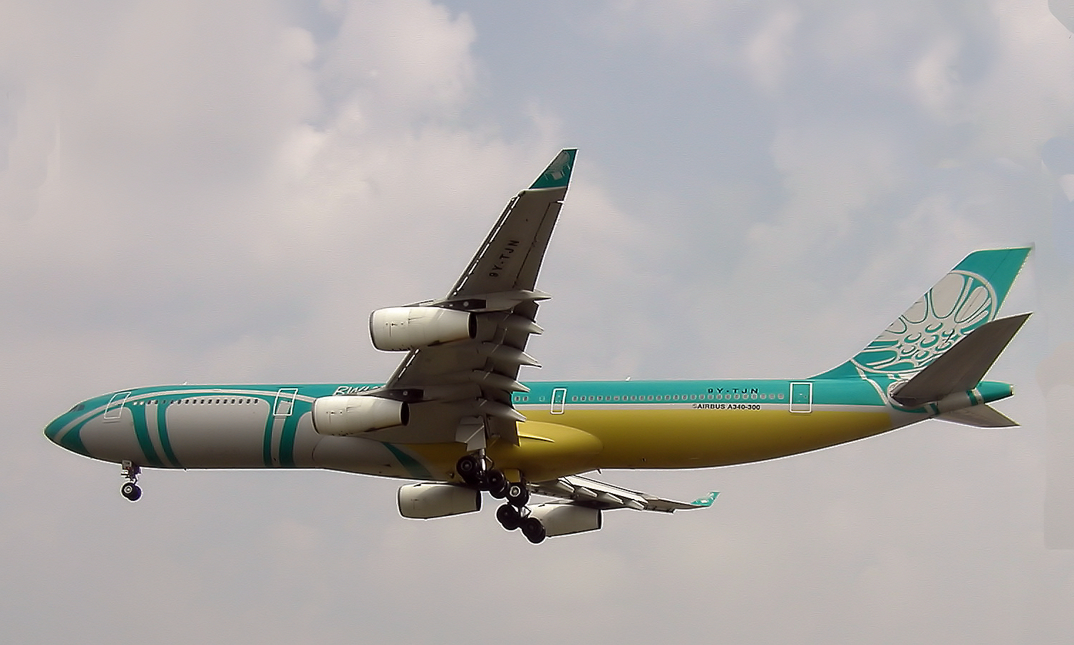 British West Indian Airways Airbus A340-300 (9Y-TJN) landing at London Heathrow Airport. Photographed by Adrian Pingstone in September 2002 and released to the public domain.